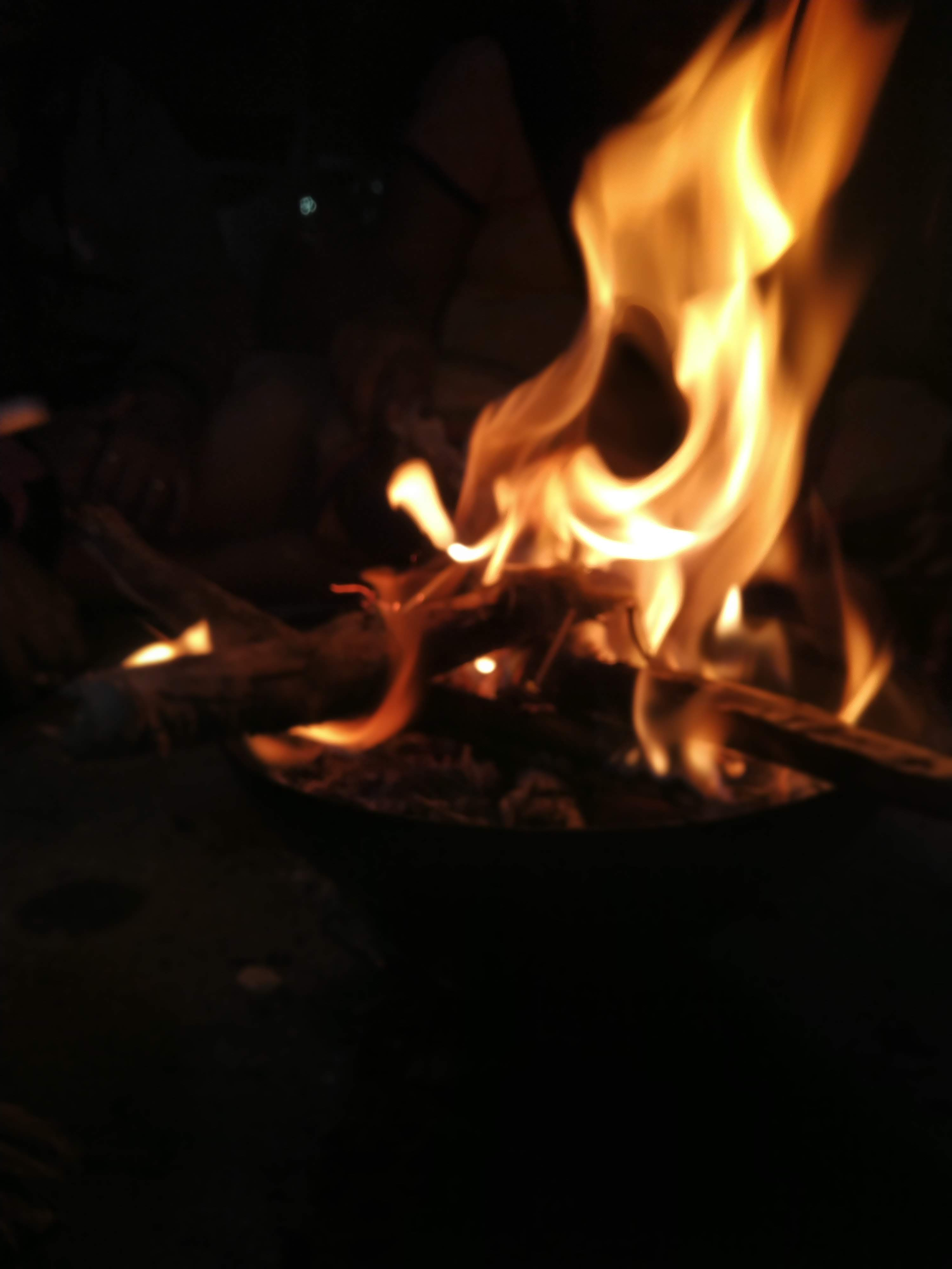 The word "YADNYA" is misspelt as "YAJNA",where in hinduism any ritual done in front of sacread fire with mantra being called as "YADNYA" in sanskrit and "YAGYA" in hindi.